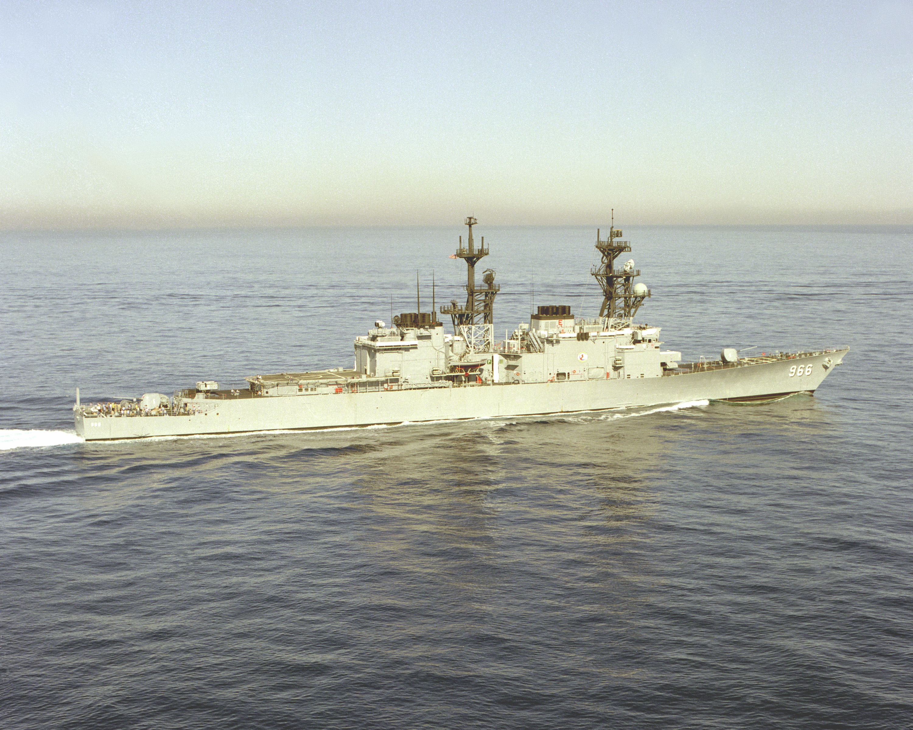 A starboard view of the destroyer USS HEWITT (DD-966) underway off the coast of San Diego, California.